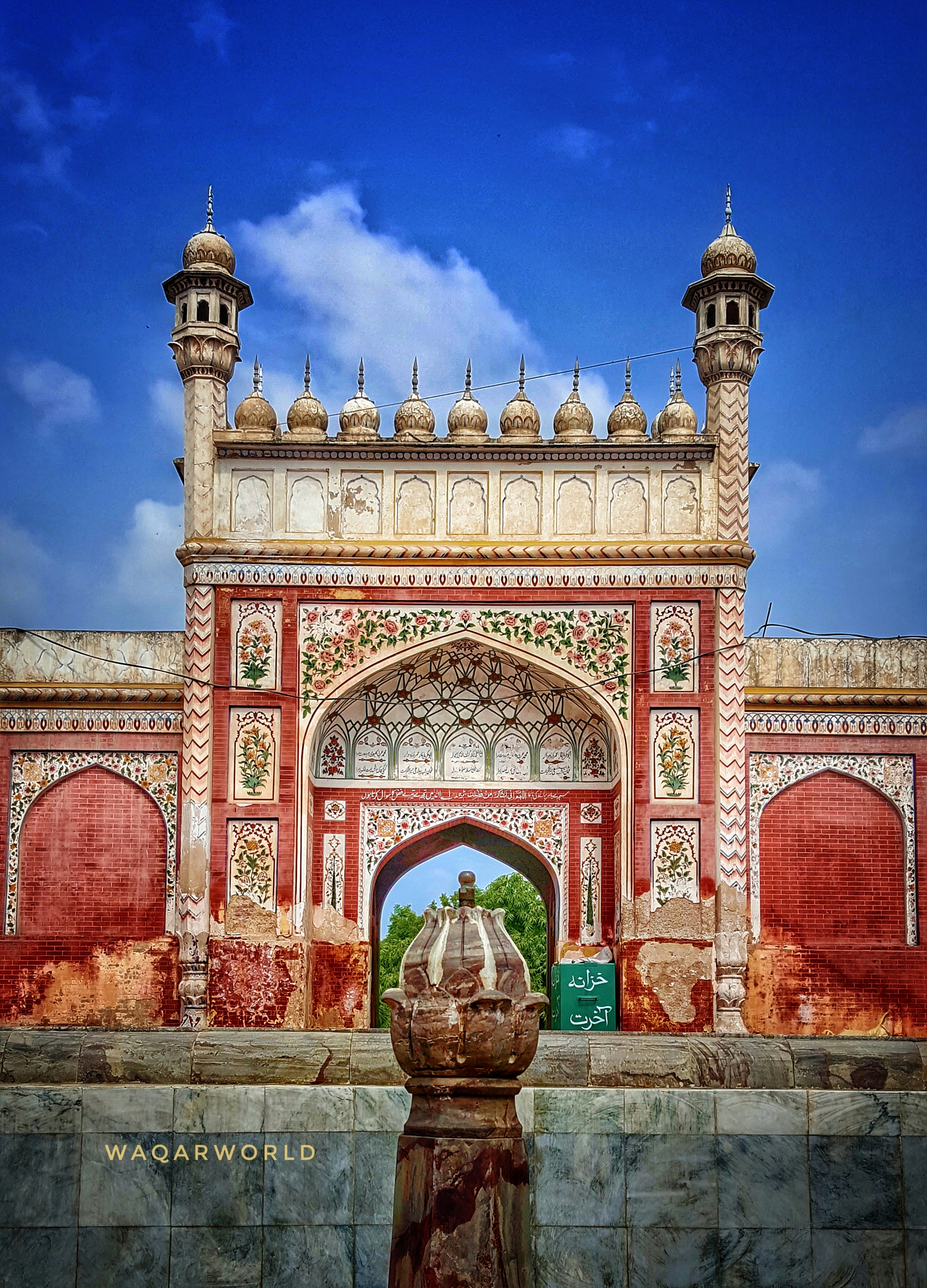 Shahi Masjid This is a photo of a monument in Pakistan identified as the PB-P-1